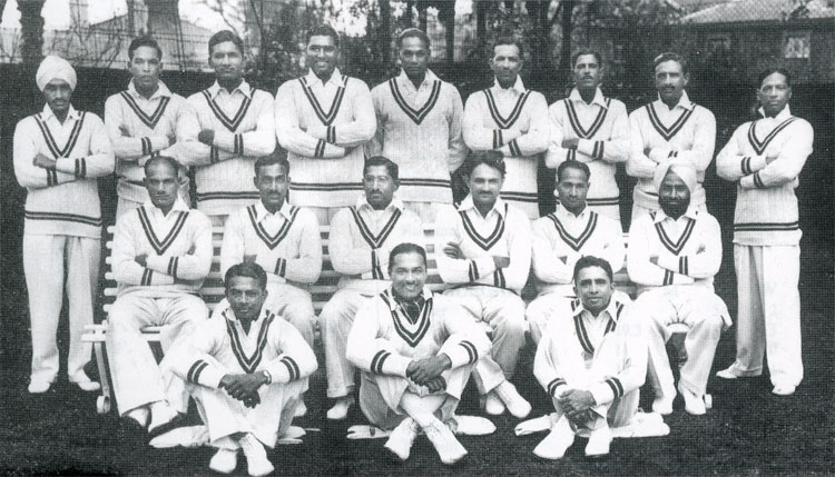 1932 Indian Test Cricket team. The 1932 All-India side which toured England. Back: Lall Singh, Phiroze Palia, Jahangir Khan, Mohammad Nissar, Amar Singh, Bahadur Kapadia, Shankarrao Godambe, Ghulam Mohammad, Janardan Navle. Seated: Syed Wazir Ali, C.K.Nayudu, Maharaja of Porbandar (captain), KS Limbdi (vice-captain), Nazir Ali, Joginder Singh. Front: Naoomal Jaoomal, Sorabji Colah, Nariman Marshall.